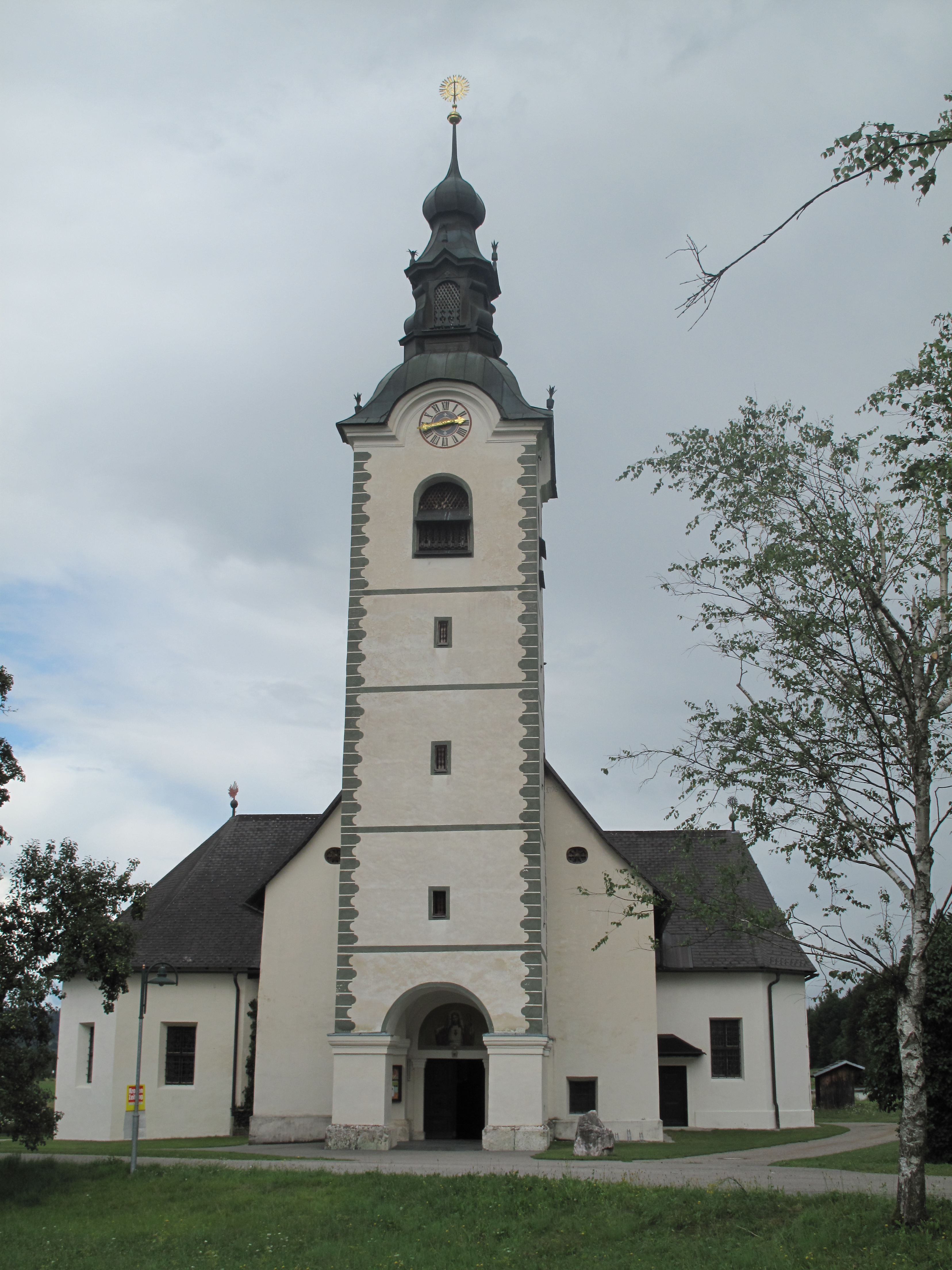 Sankt Johann im Rosental, church:Pfarrkirche heiliger Johannes